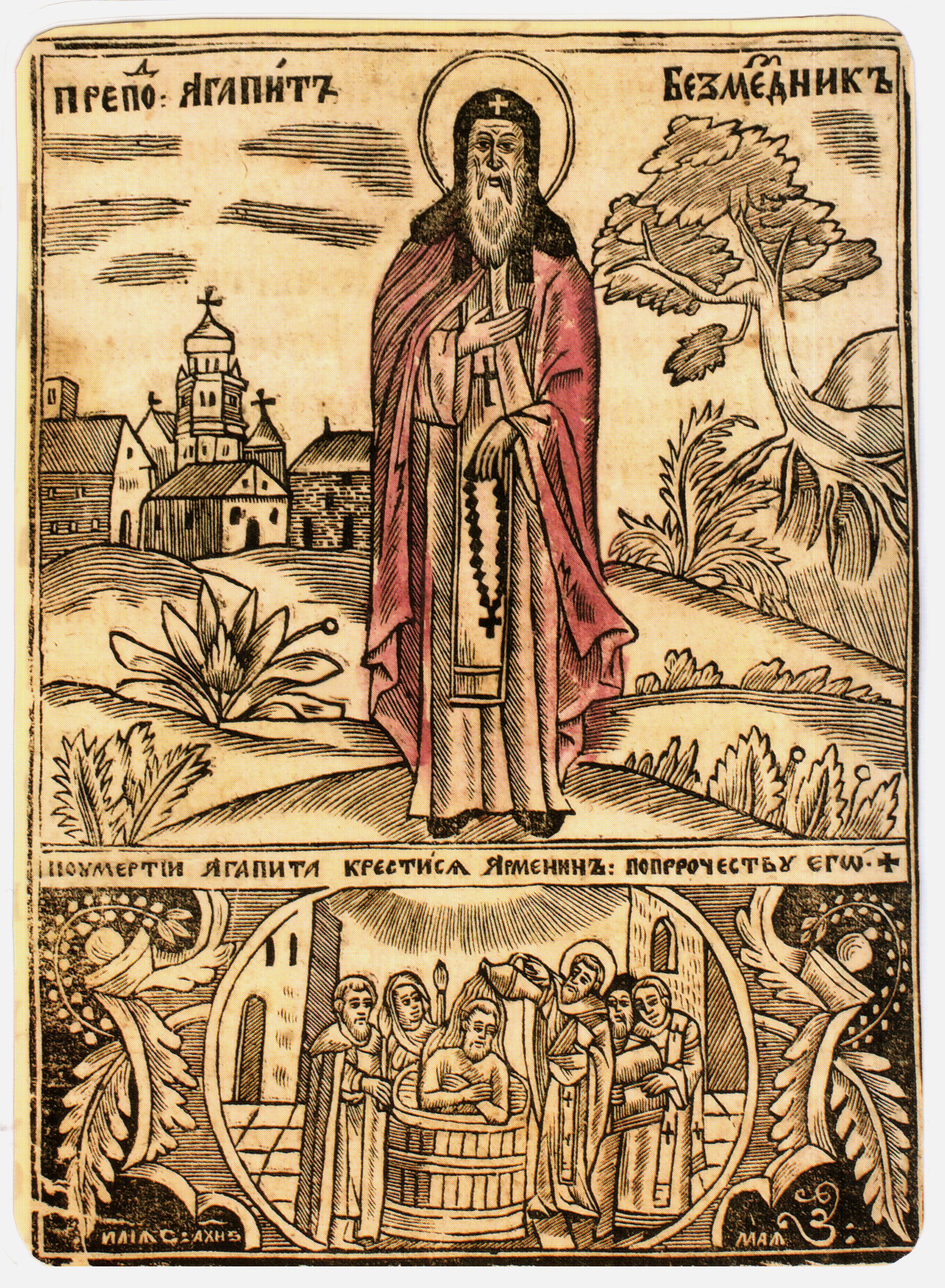 Saint Agapetus. Russian picture (1661). Преподобный Агапит Безмедник. Киево - Печерский патерик, издание 1661 года.